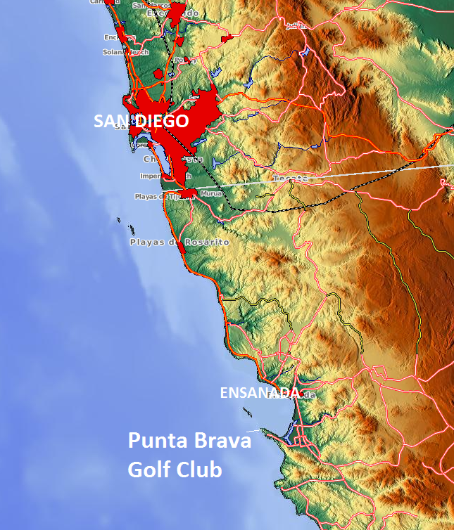 Punta Brava Golf Club location — Municipality of Ensenada—Municipio de Ensenada. Located in Baja California state, northern Baja California Peninsula, Mexico.